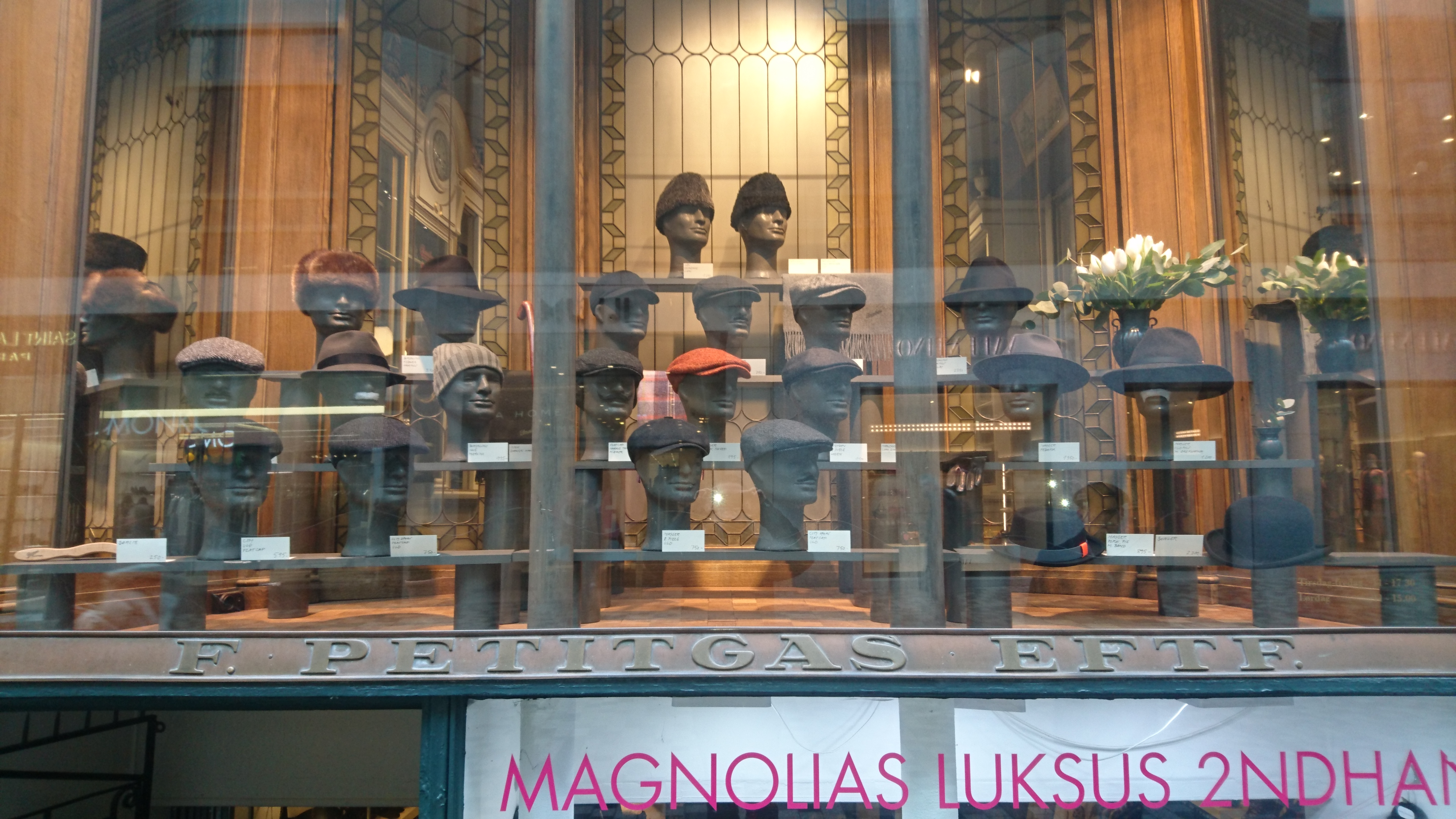 Window display at the hat maker Petitgas in Copenhagen.